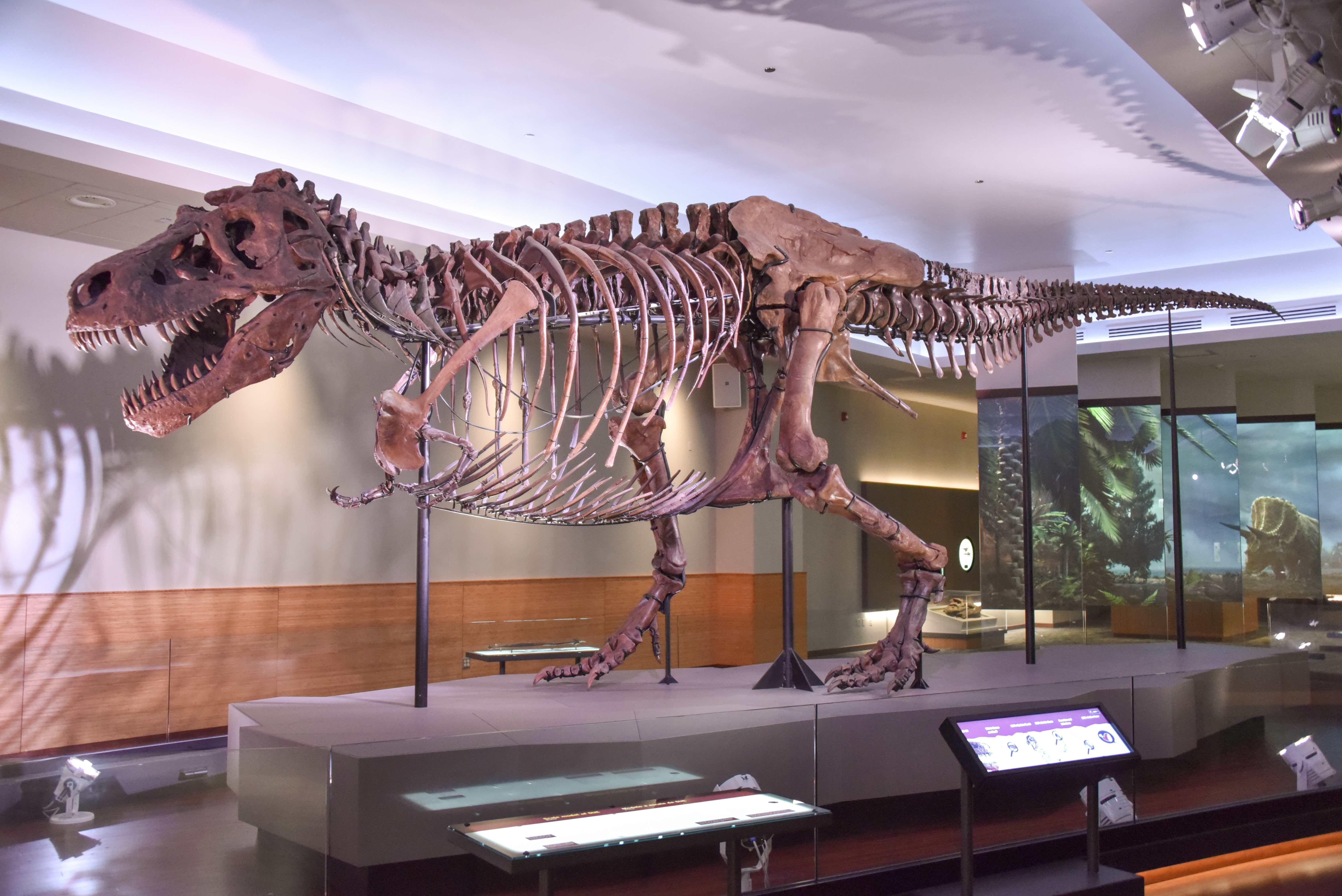 Tyrannosaurus Rex specimen "SUE" on display at the Field Museum of Natural History in Chicago, Illinois.